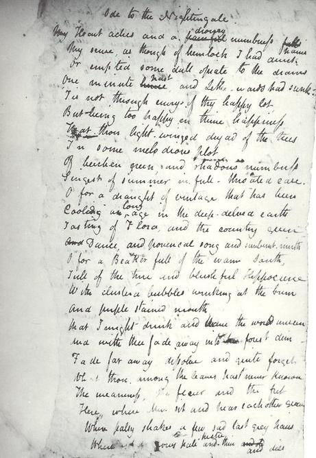 Holograph copy of Keats's "Ode to a Nightingale".